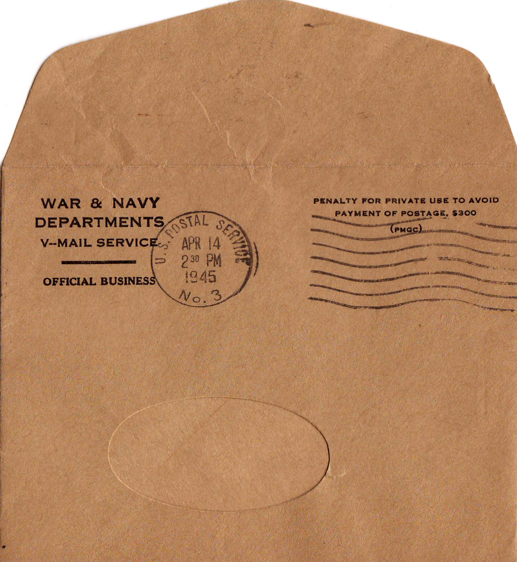 Scan of a Vmail Envelope. From my family archives. NathanBeach 17:14, 7 March 2006 (UTC). This image is curious, however, because the United States Postal Service did not exist by that name until 1971.